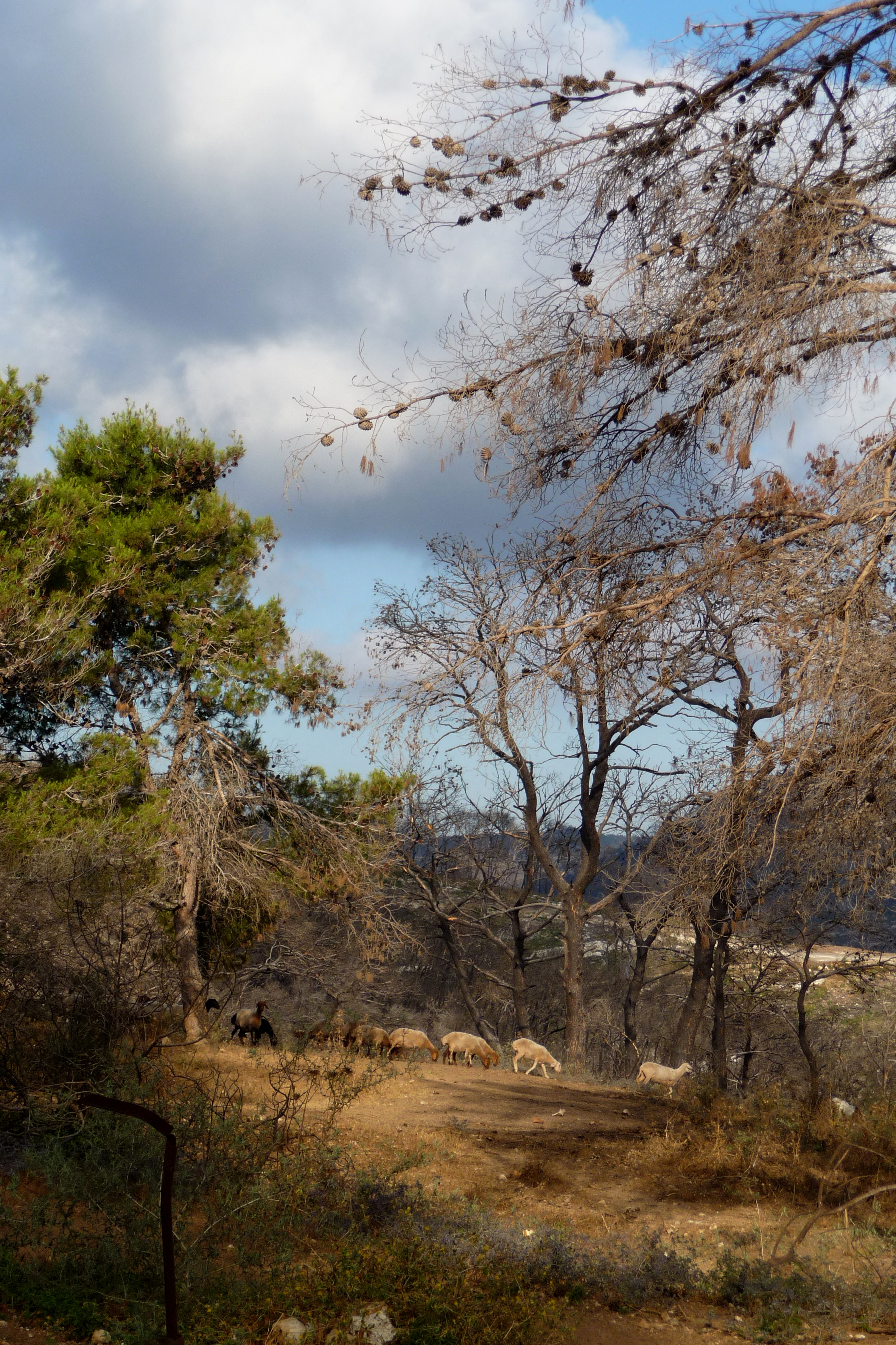 Carmel Park